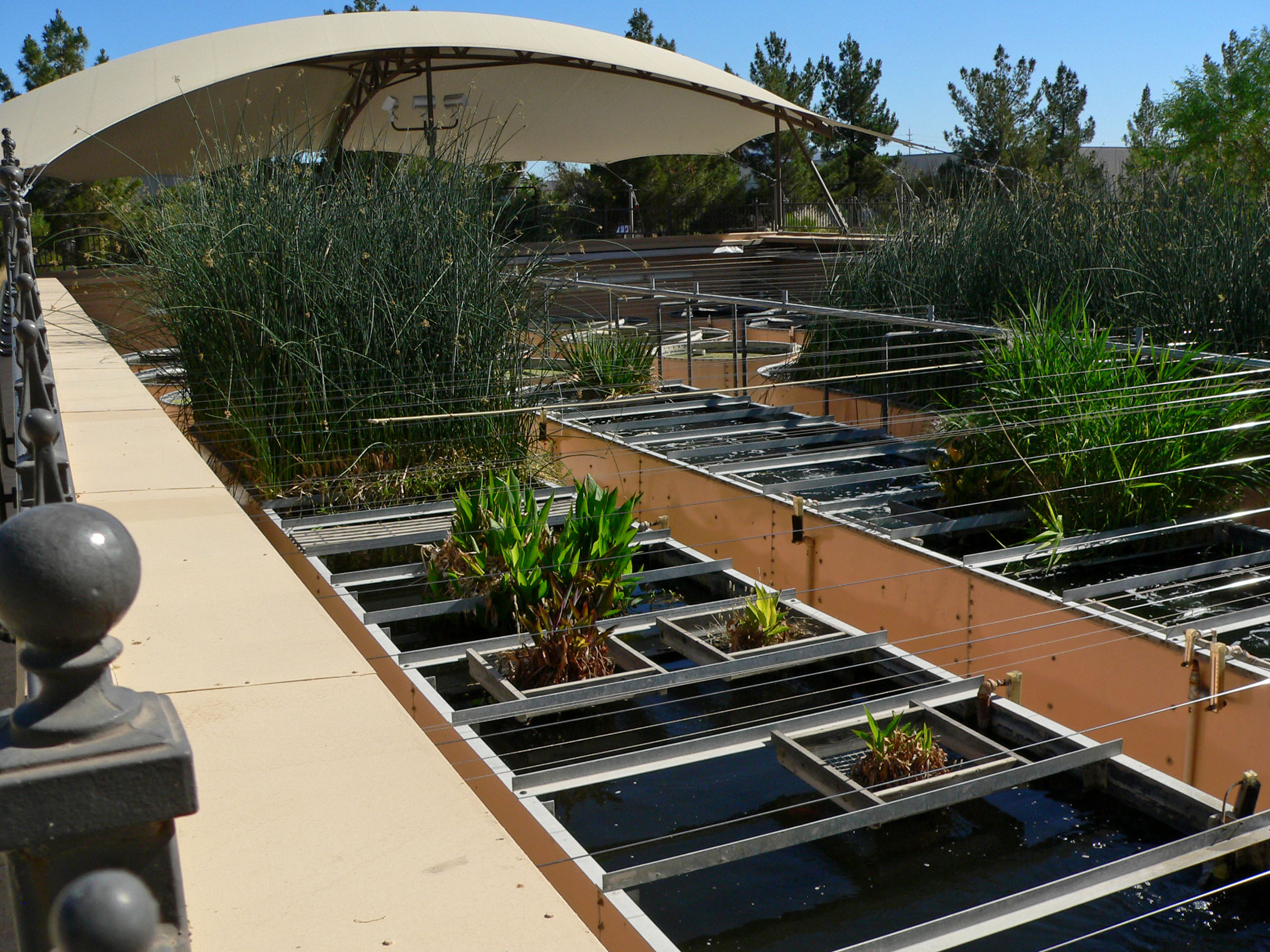 View of the "Living Machine" water treatment facility at Ethel M Botanical Cactus Garden, Las Vegas, Nevada